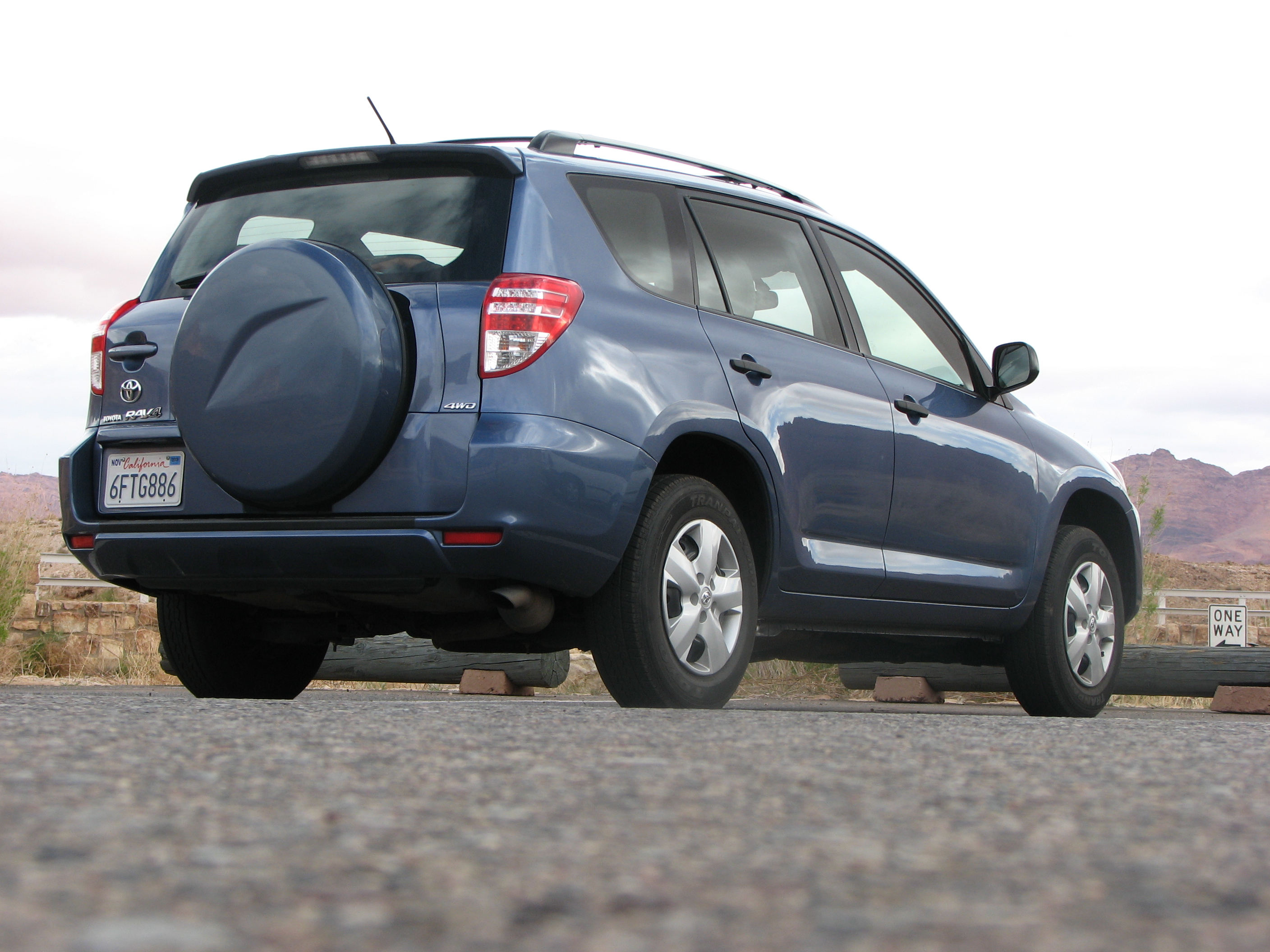 A Toyota RAV4, third generation